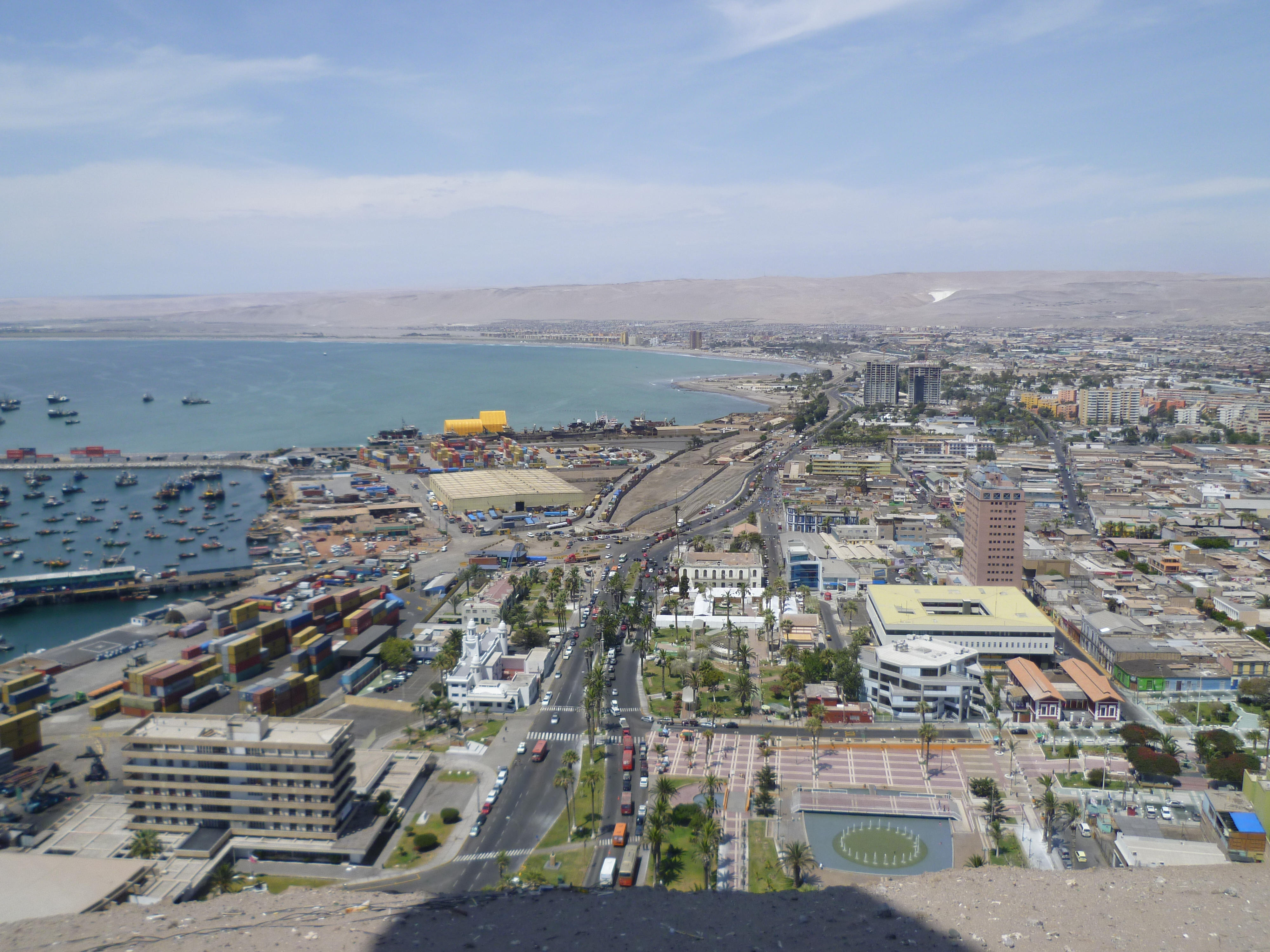 vista de arica